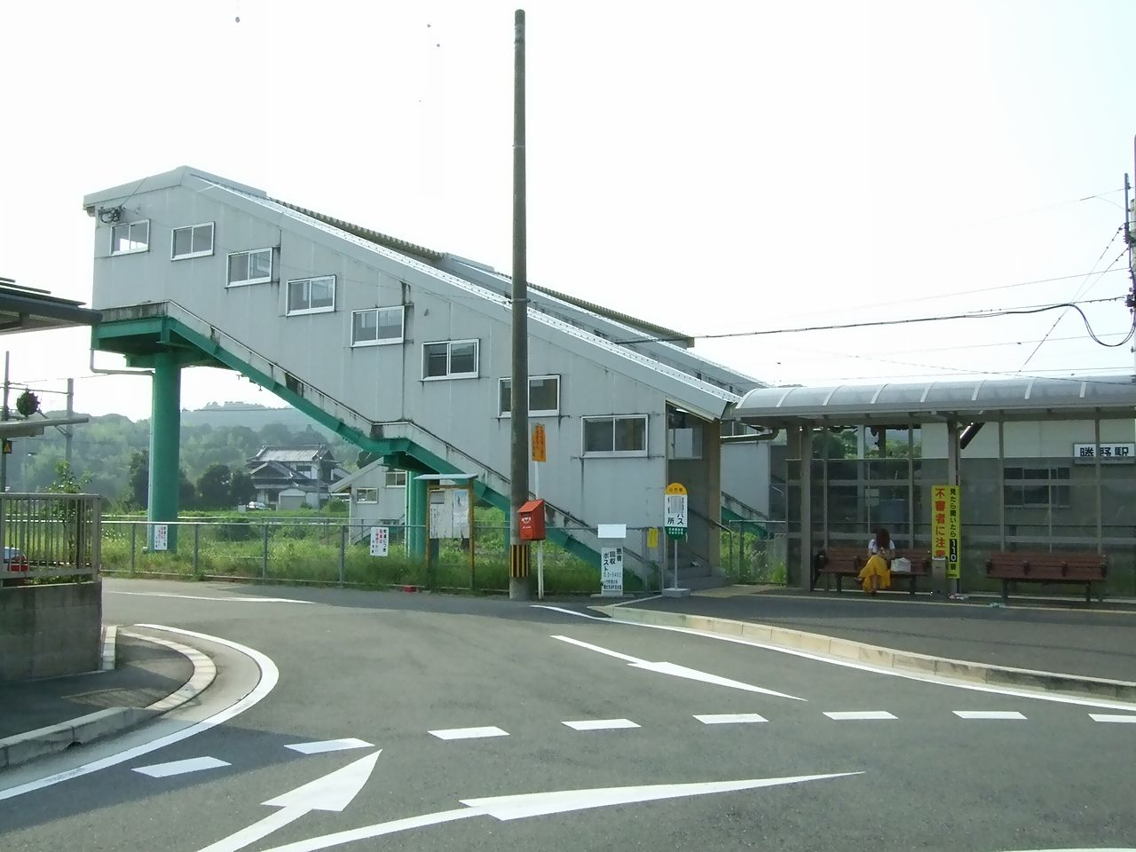 Katsuno Station, Chikuho Main Line, Kyushu Railway Company.